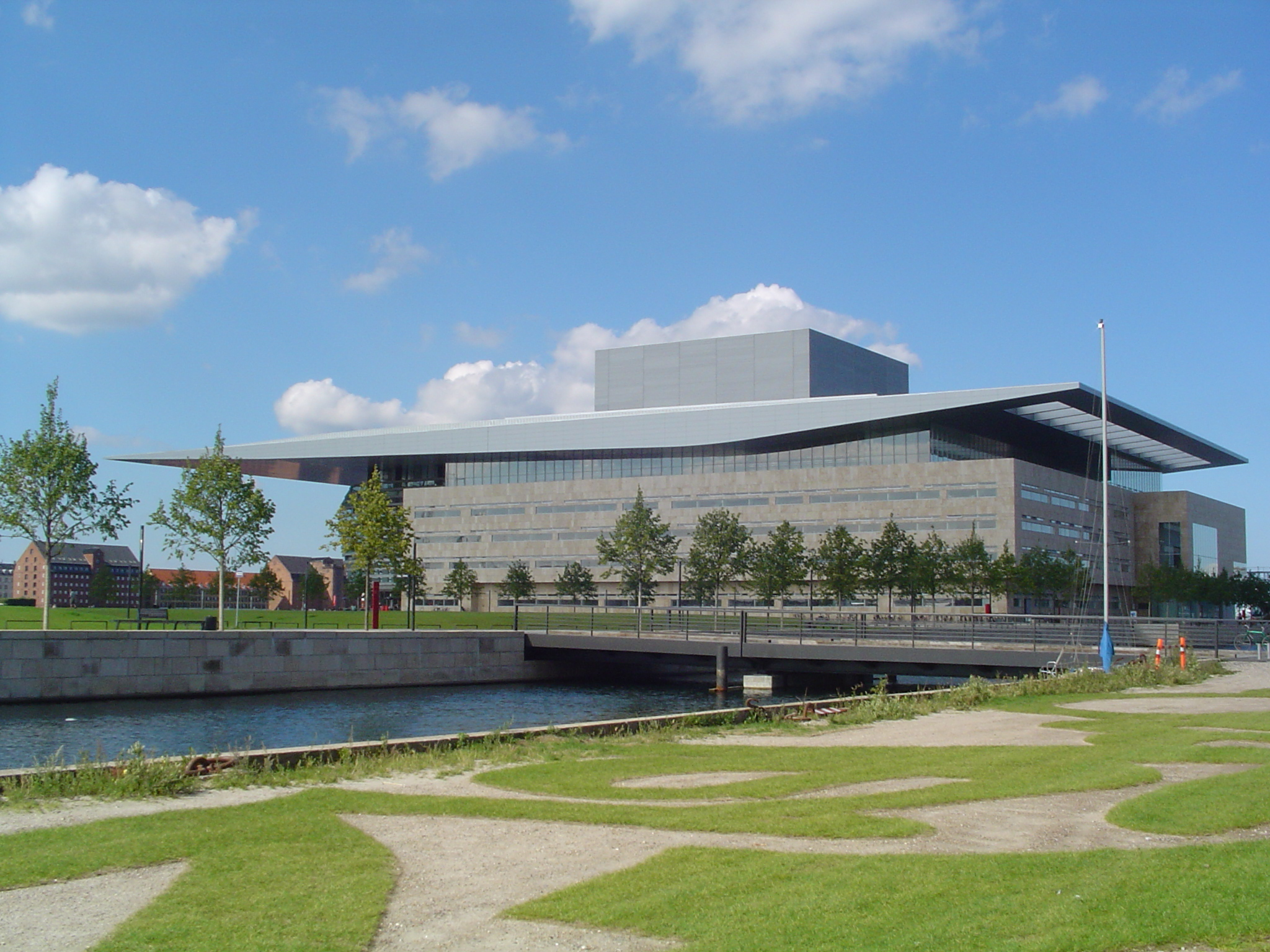 The Copenhagen Opera House. Photo by User:Thue on 15/8-2005.